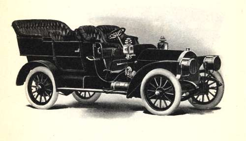 1908 Studebaker-Garford touring car. Image scanned from the "Handbook of Gasoline Automobiles" copyright date 1908 by the Association of Licensed Automobile Manufacturers